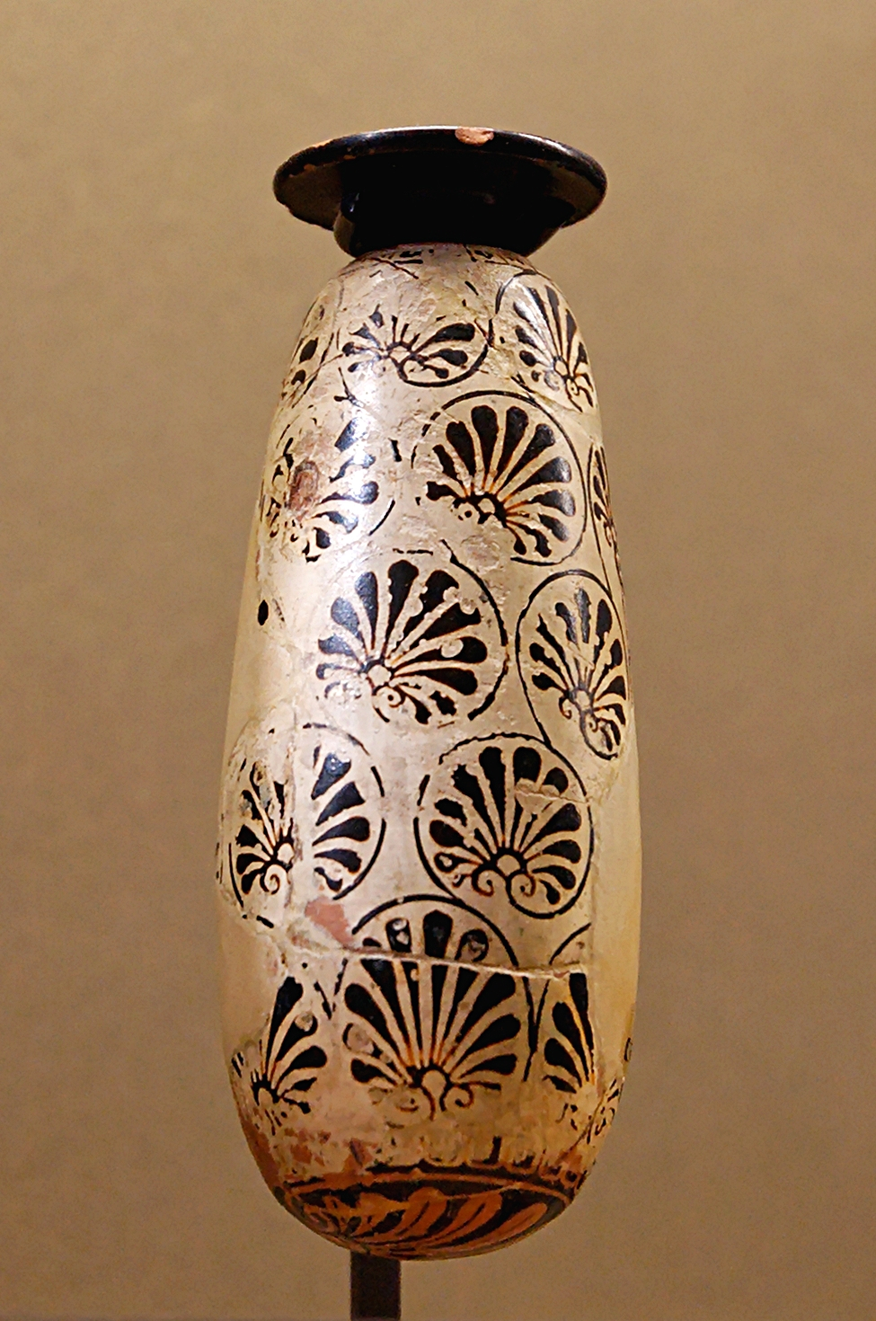 Attic white-ground black-figure alabastron, ca. 540 BC.